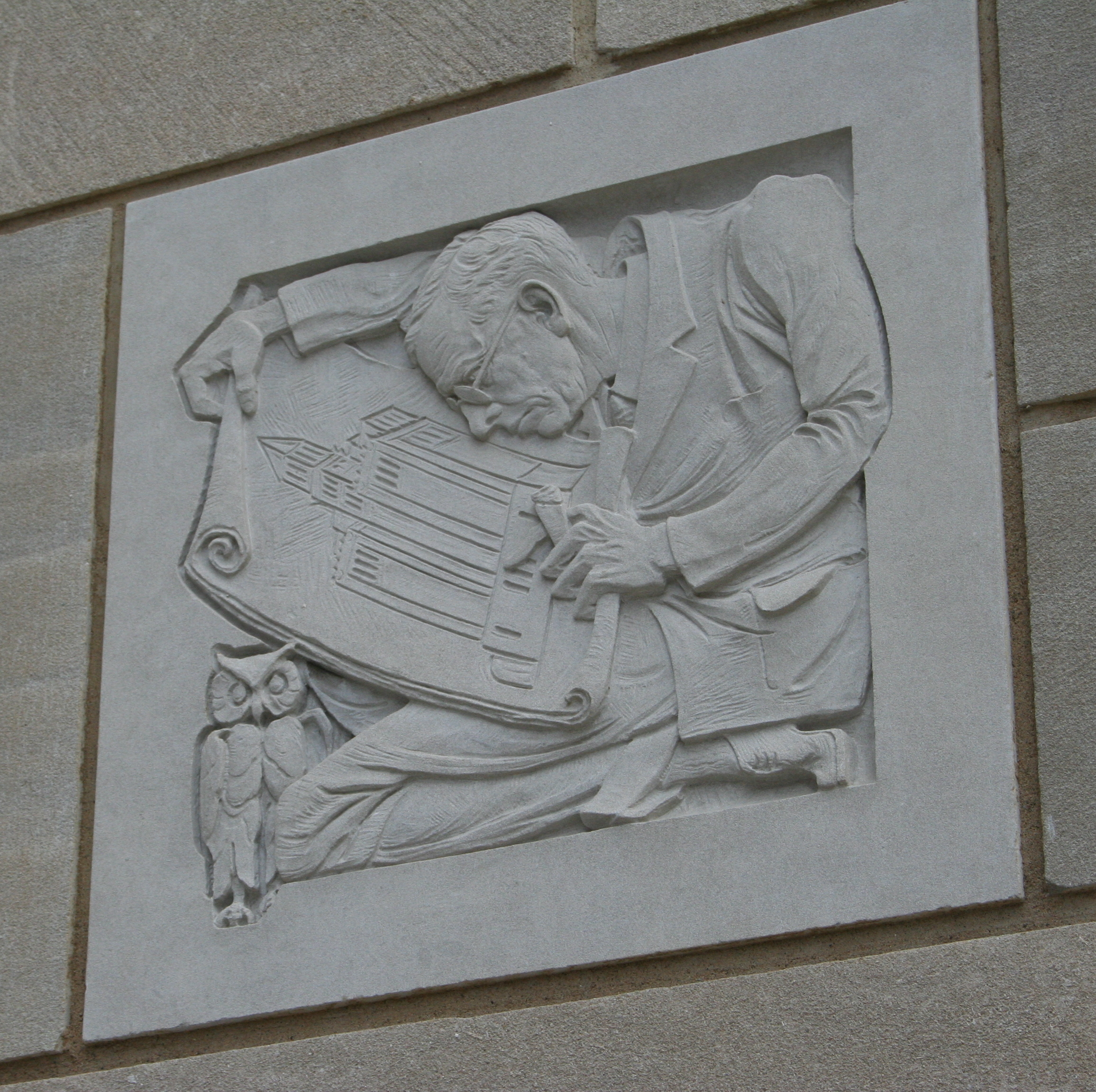 Architectural detail on the southwest corner of the 1928 Mayo Clinic Building showing Dr. Henry Stanley Plummer reviewing plans for what is now called the Plummer Building.